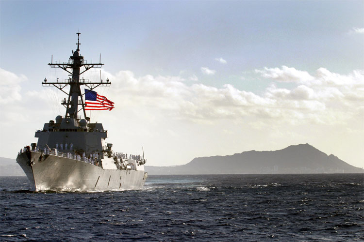 The USS Chafee (DDG-90)